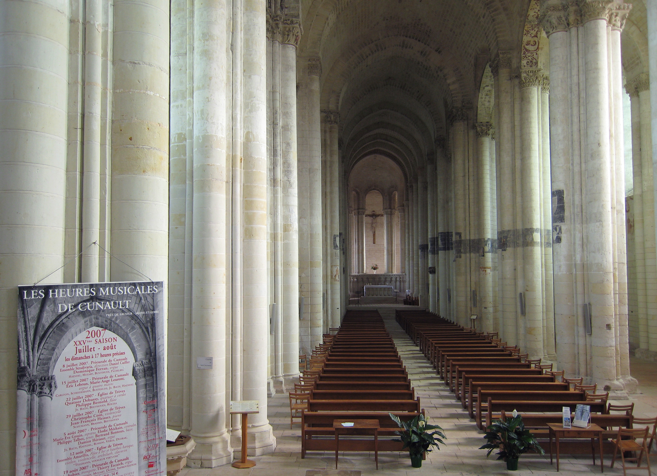 Notre Dame de Cunault - romanesque church in the village of Cunault in the Département of Maine-et-Loire, France, showing a mourning listel.